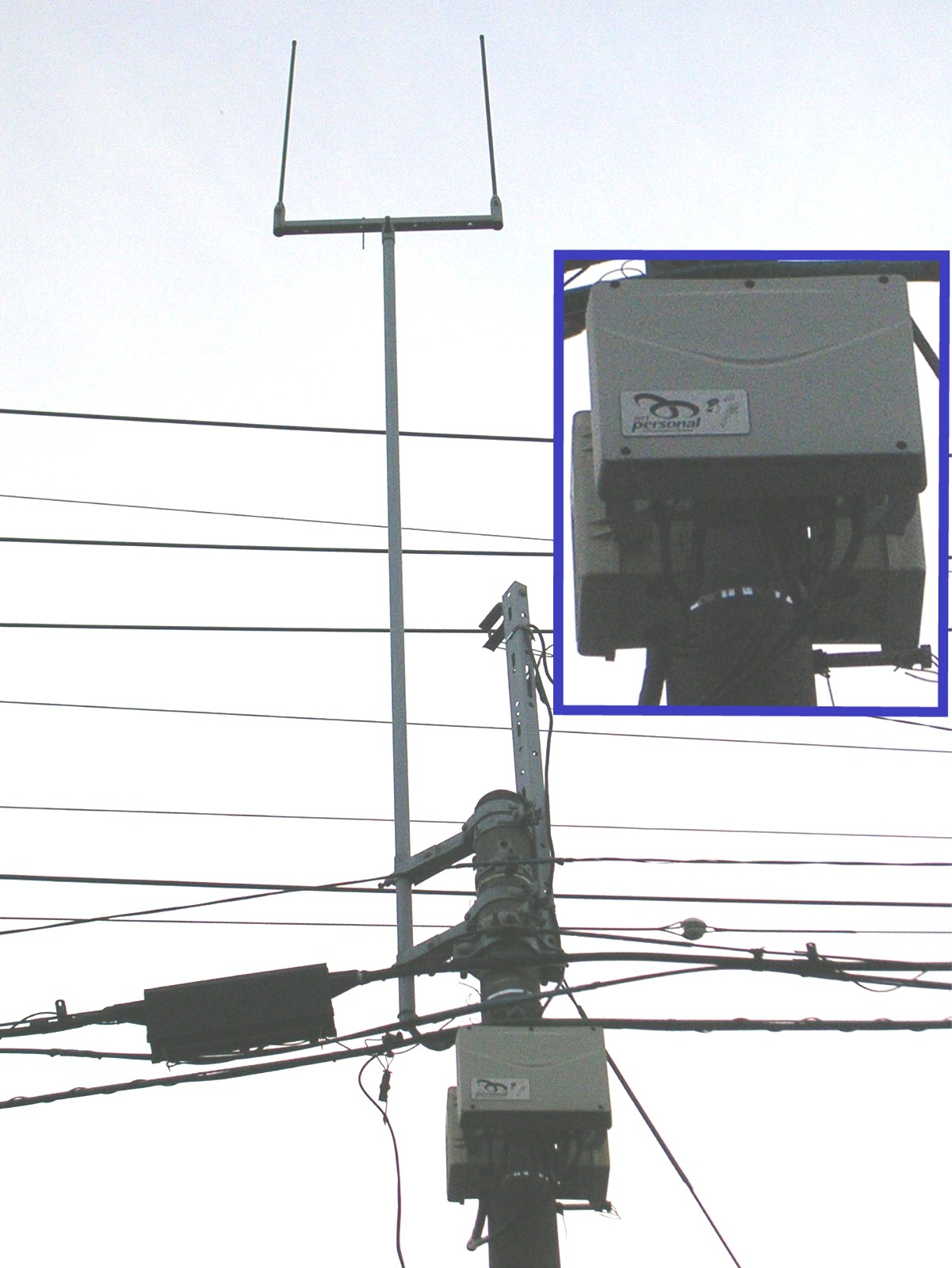 This is PHS base station which was seted up by NTT Personal.